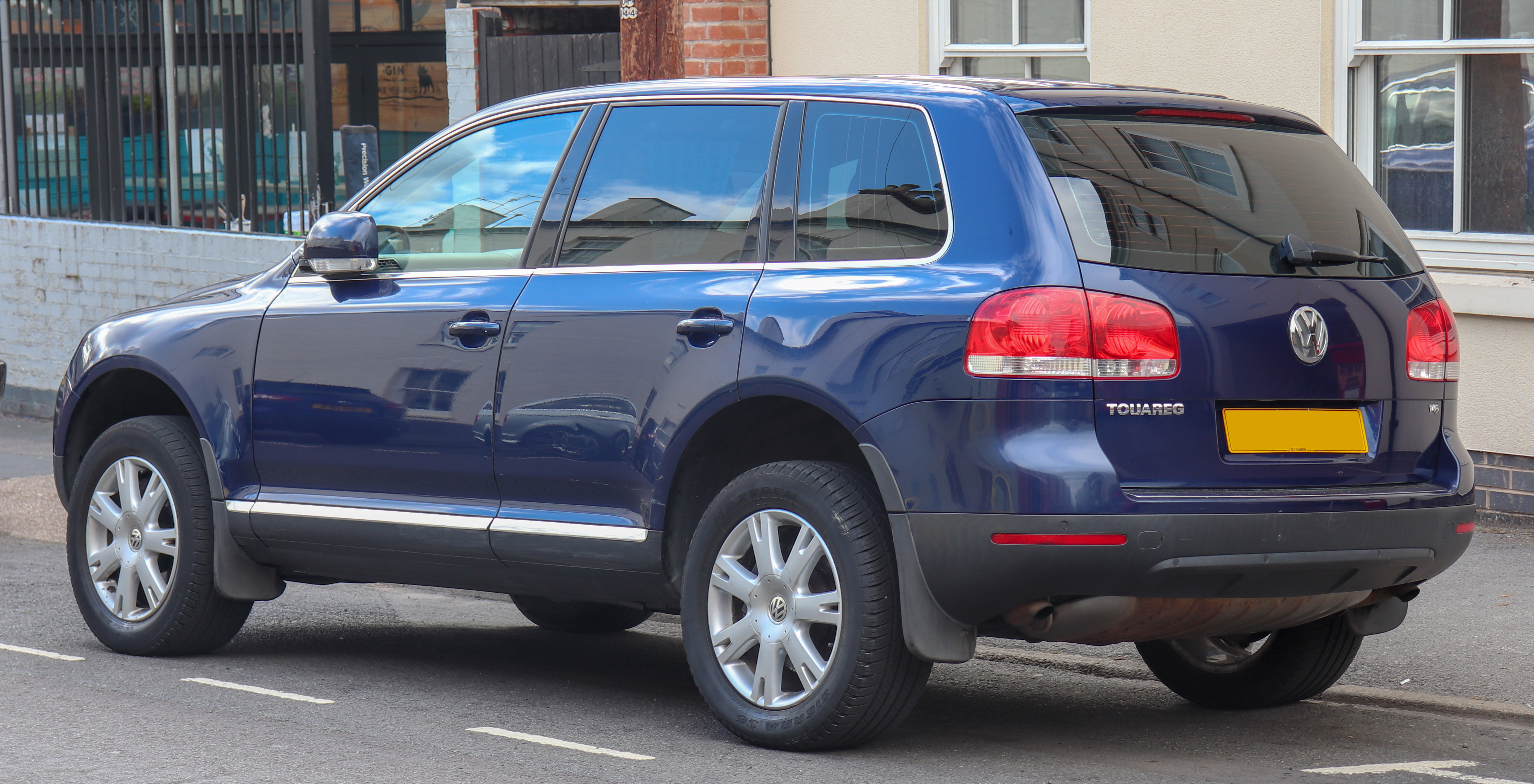 2005 Volkswagen Touareg V6 Sport Automatic 3.2 Rear Taken in Leamington Spa